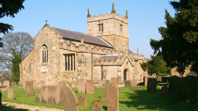 Parish church of St John the Baptist, Ault Hucknall, Derbyshire, seen from the southwest